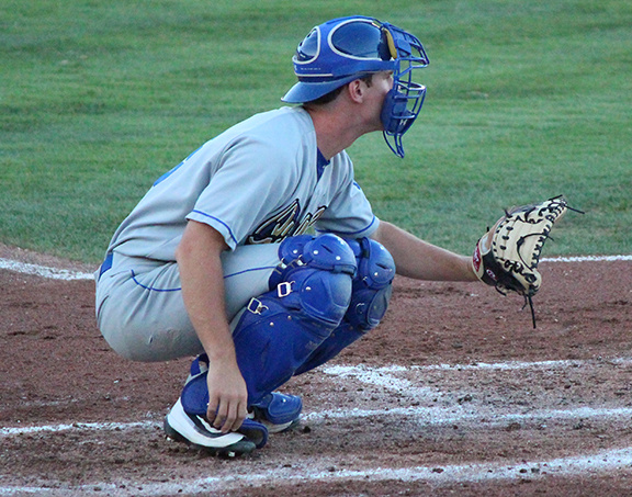 Will Smith catching for the Rancho Cucamonga Quakes